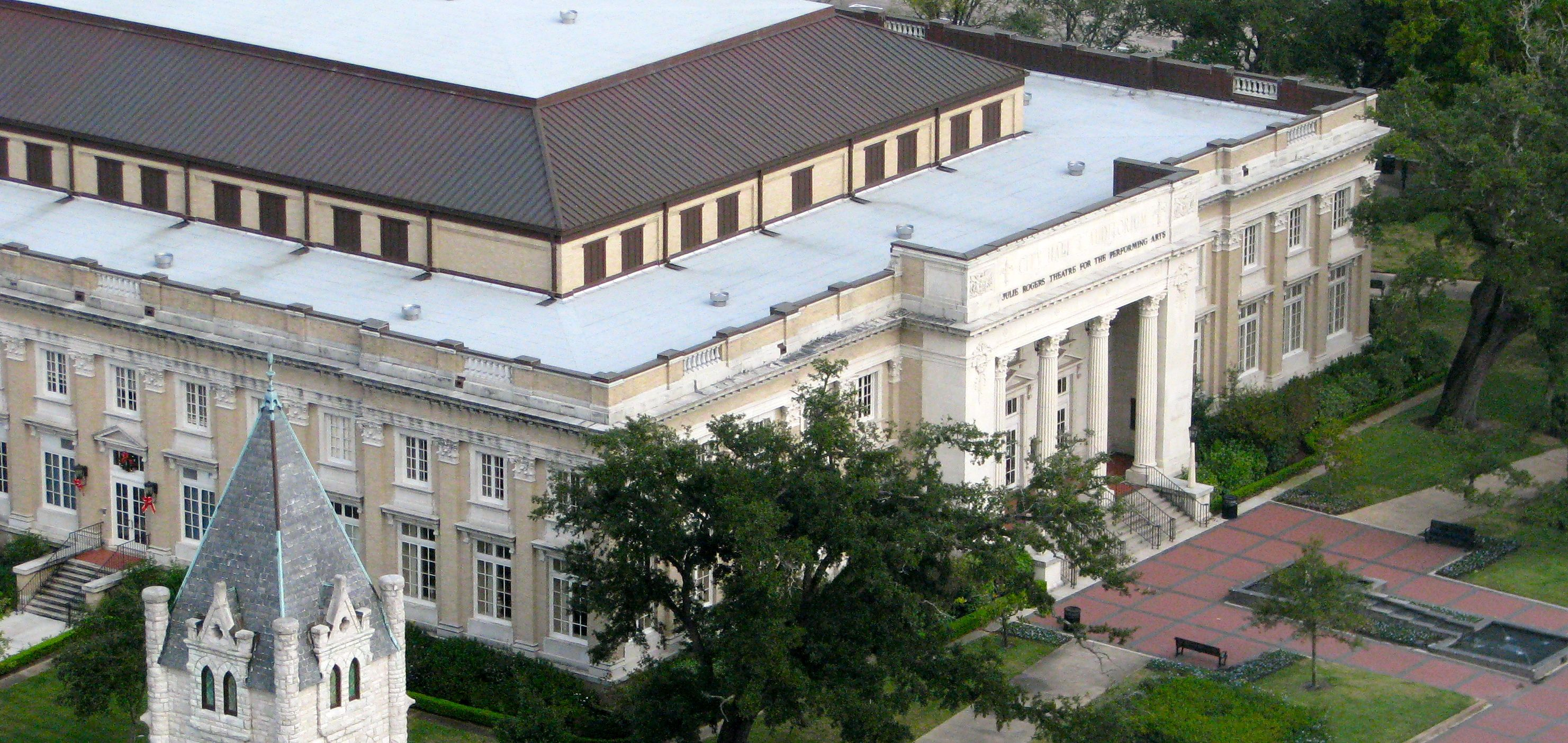 The Julie Rogers Theatre from the tower of the San Jacinto Building.